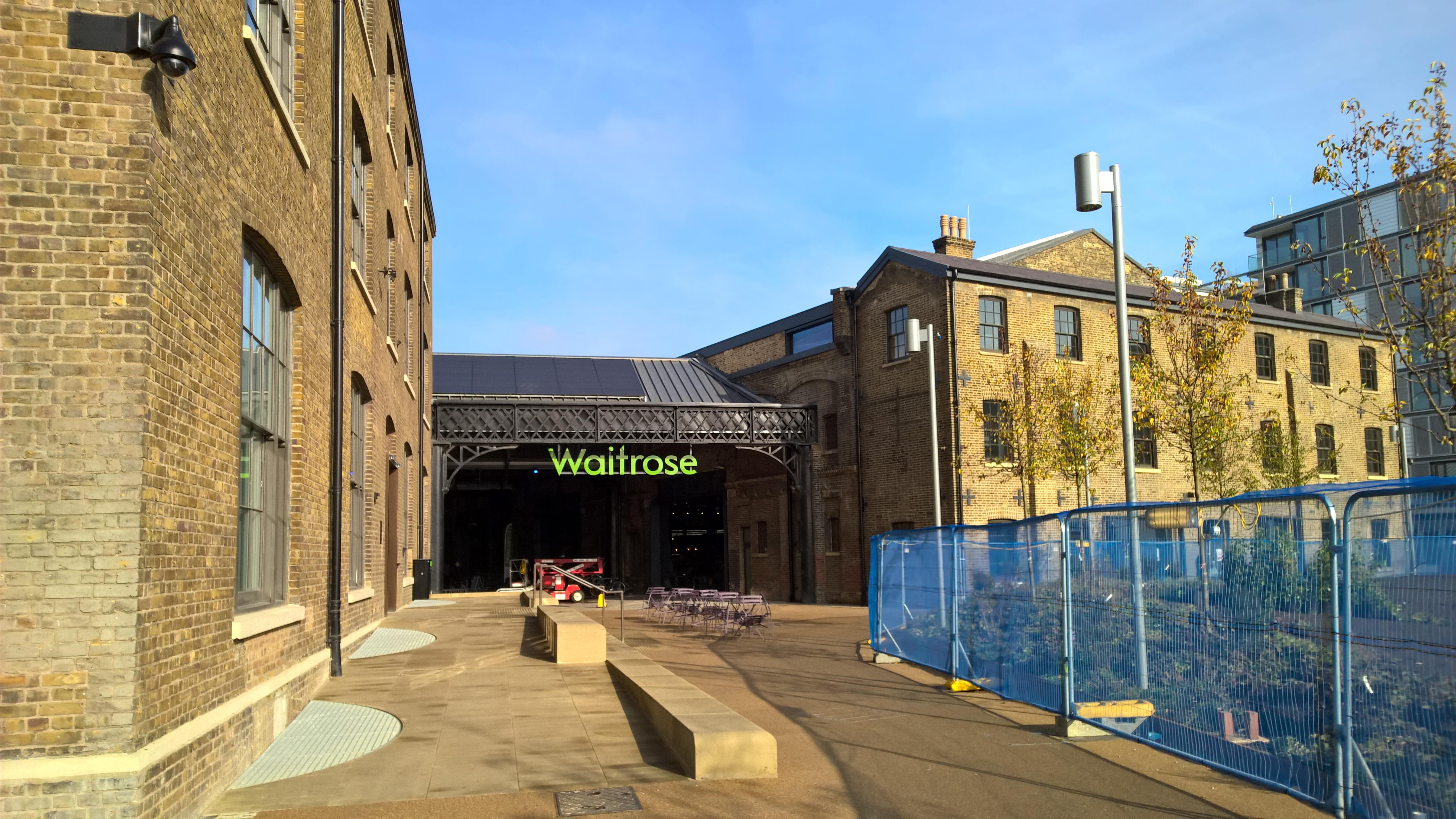 Part of the former Great Northern Goods Yard, designed by Lewis Cubitt, undergoing redevelopment in 2015. Granary (1852), six stories high, now houses Central St Martin's School of Art and Design. In the background: former Coal Drops (1856-66)